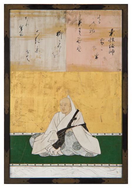 Sanjūrokkasen-gaku (Thirty-six Poetry Immortals framed picture) #9: Sosei Hōshi